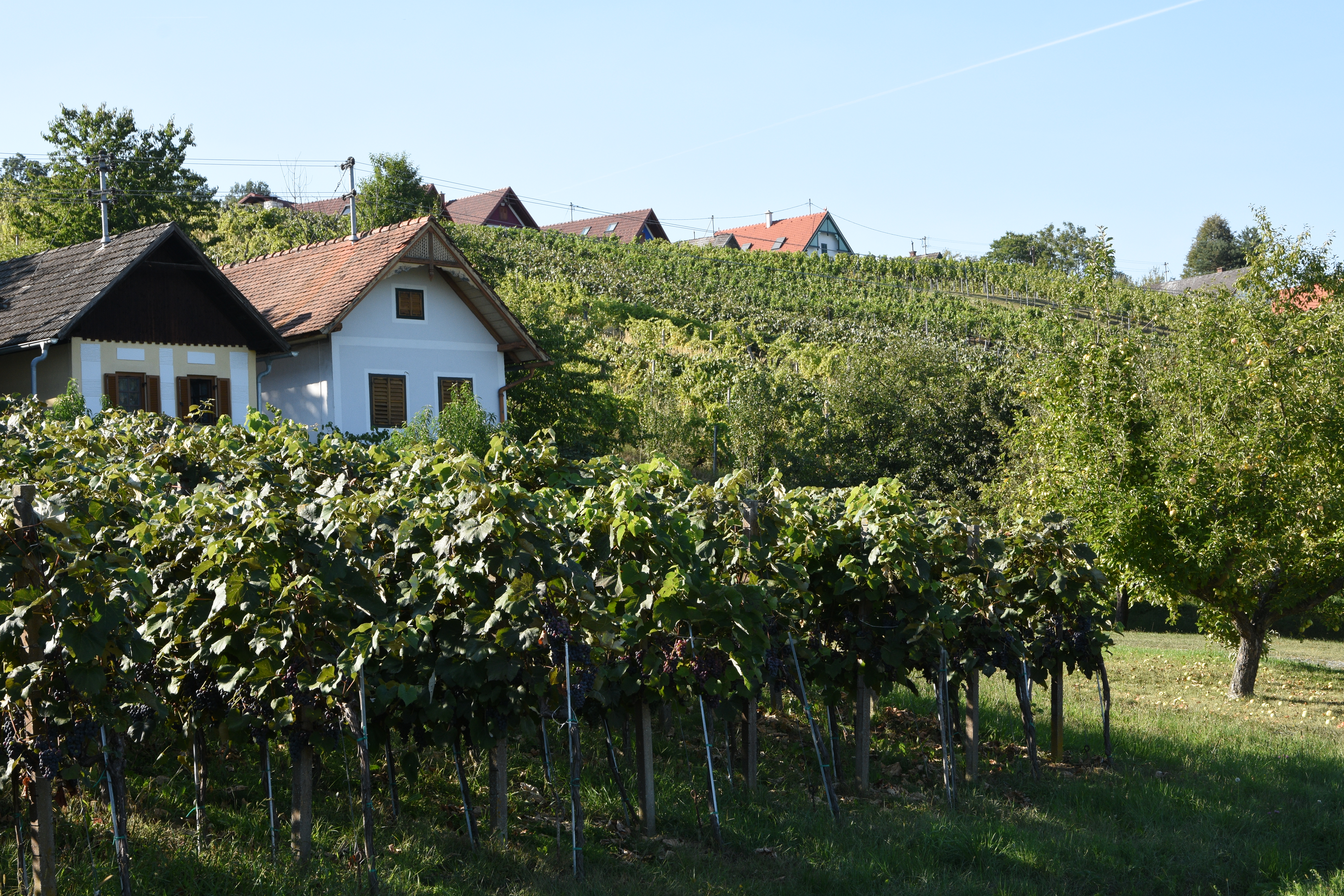 Gaaser Weinberg, Eberau